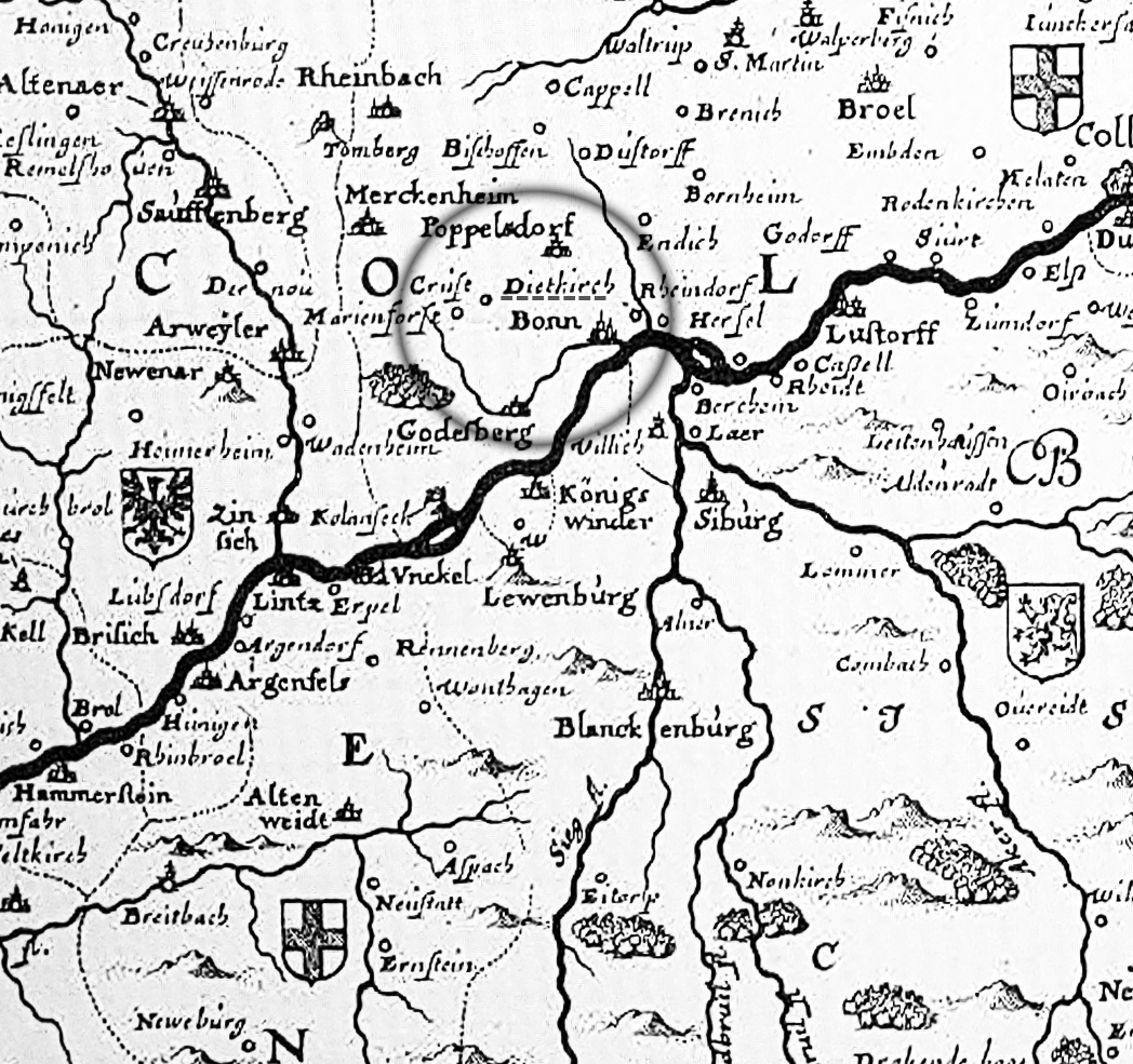 Archdiocese Cologne, cutout of a medieval map